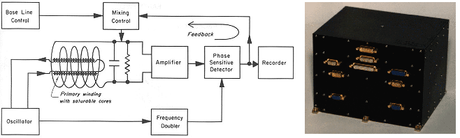 The electronic schematic and picture of the Mars Global Surveyor Magnetometer. The magnetometer is of type ring-coil of the 'vector' triaxial fluxgate magnetometers. This magnetometer is similar to those used on Magsat which was capable of discriminating 1 nT or magnetic field.